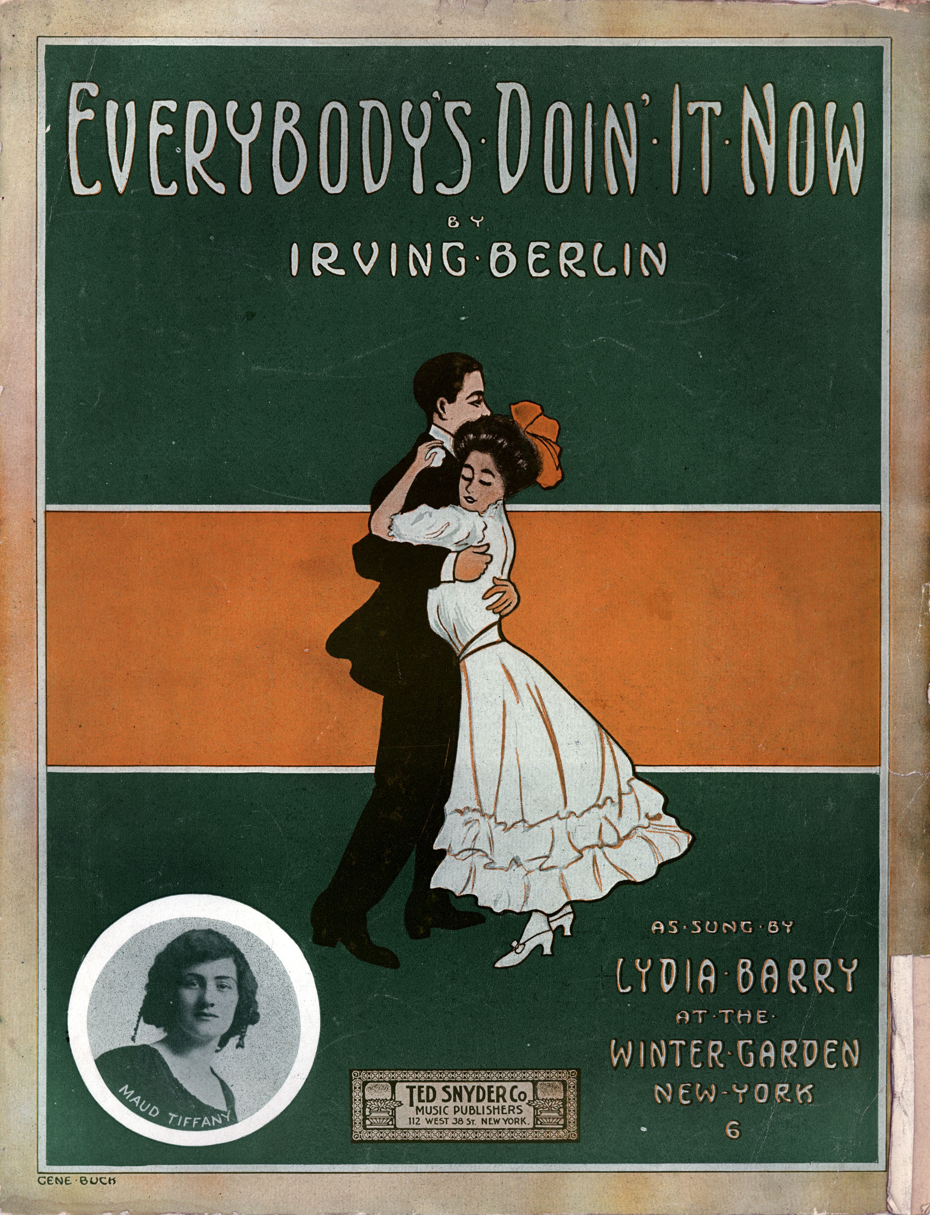 "Everybody's Doin' It Now" sheet music (page 1 of 5)